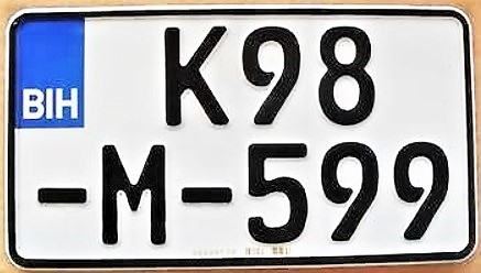 Bosnia and Herzegovina motorcycle plate